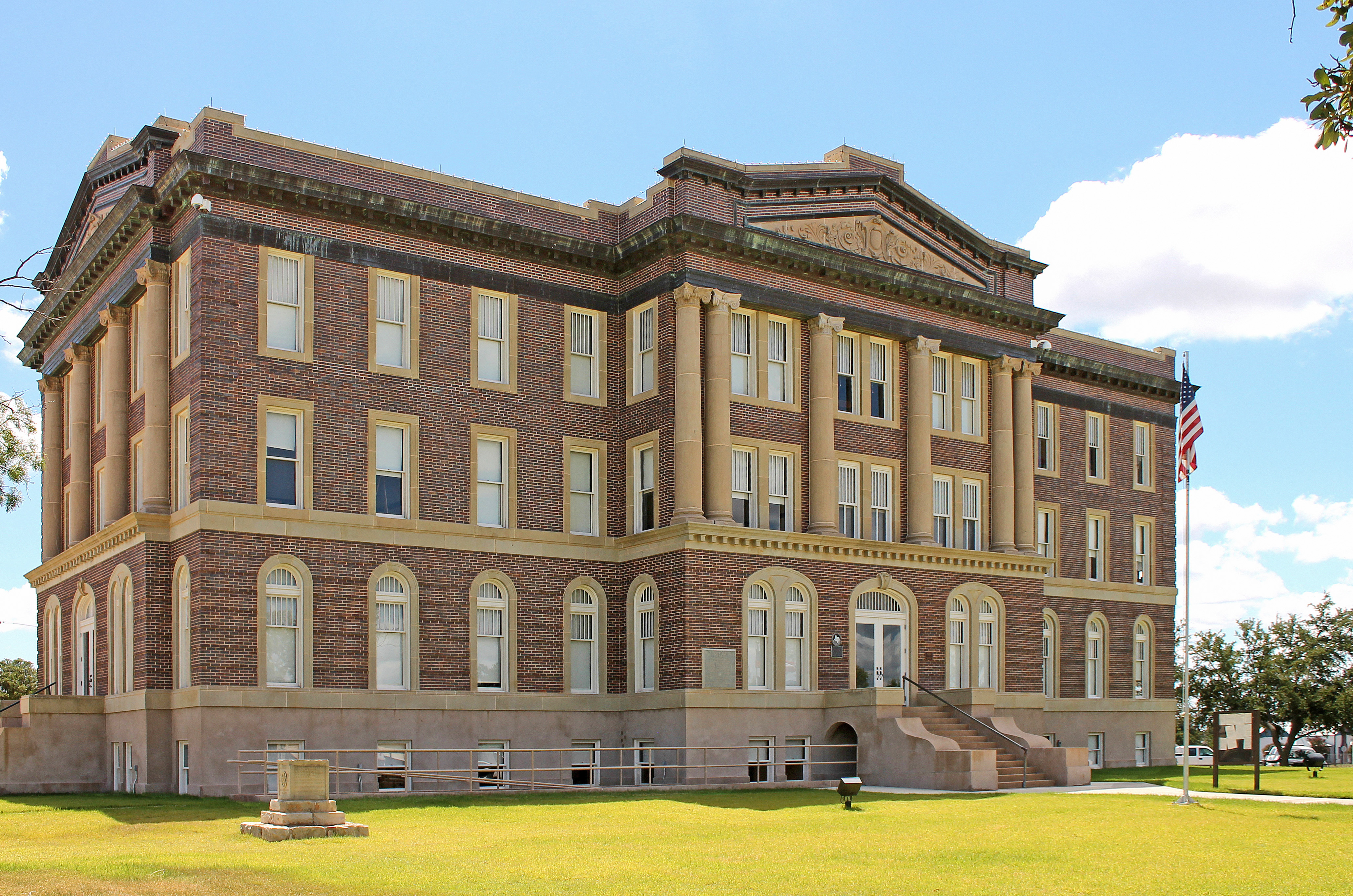 Mills County Courthouse